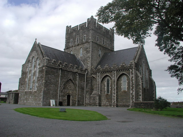 St Brigid's Cathedral Kildare